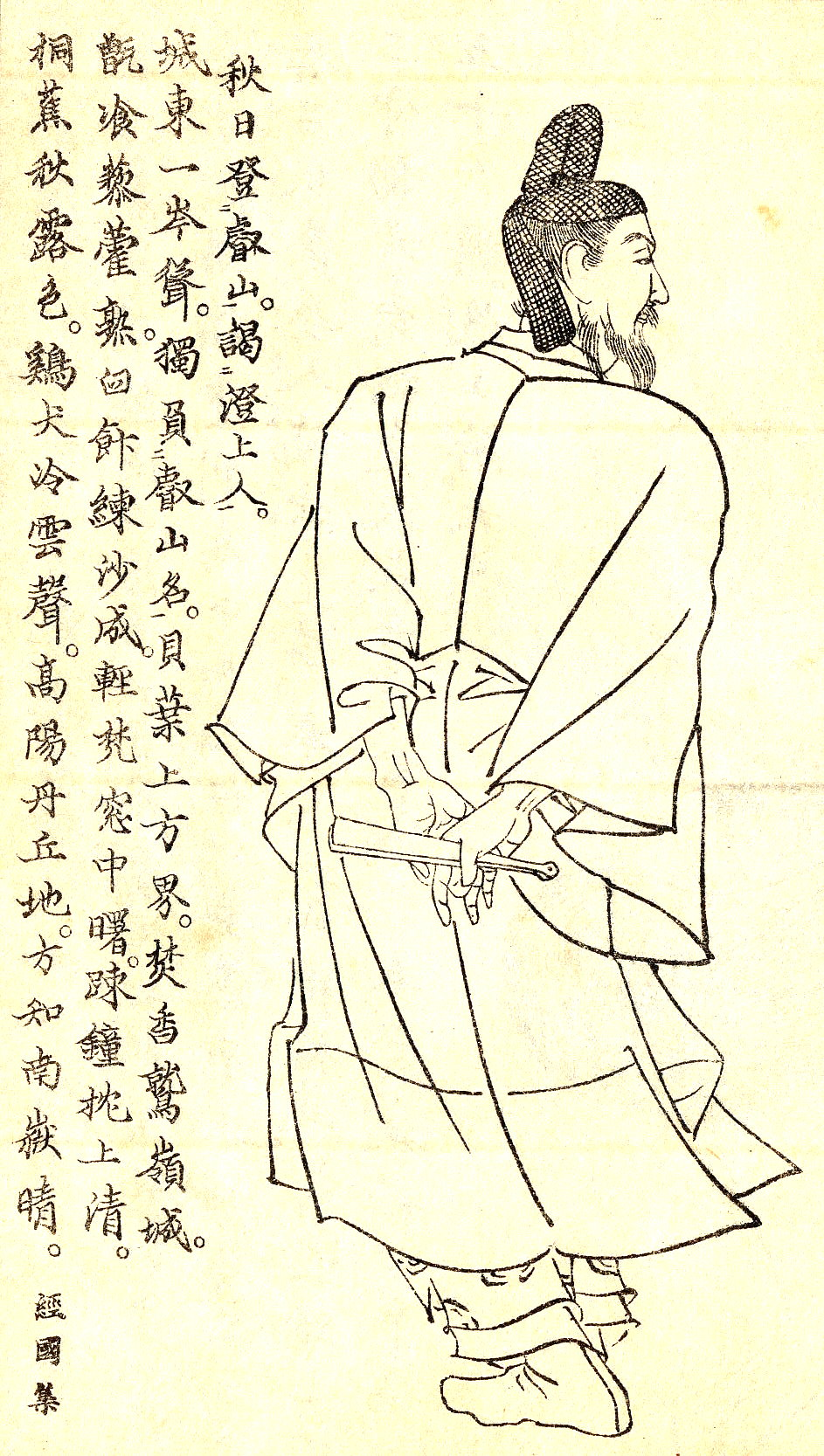 Fujiwara no Tsunetsugu(藤原常嗣) was a japanese court noble and scholar in Heian period.